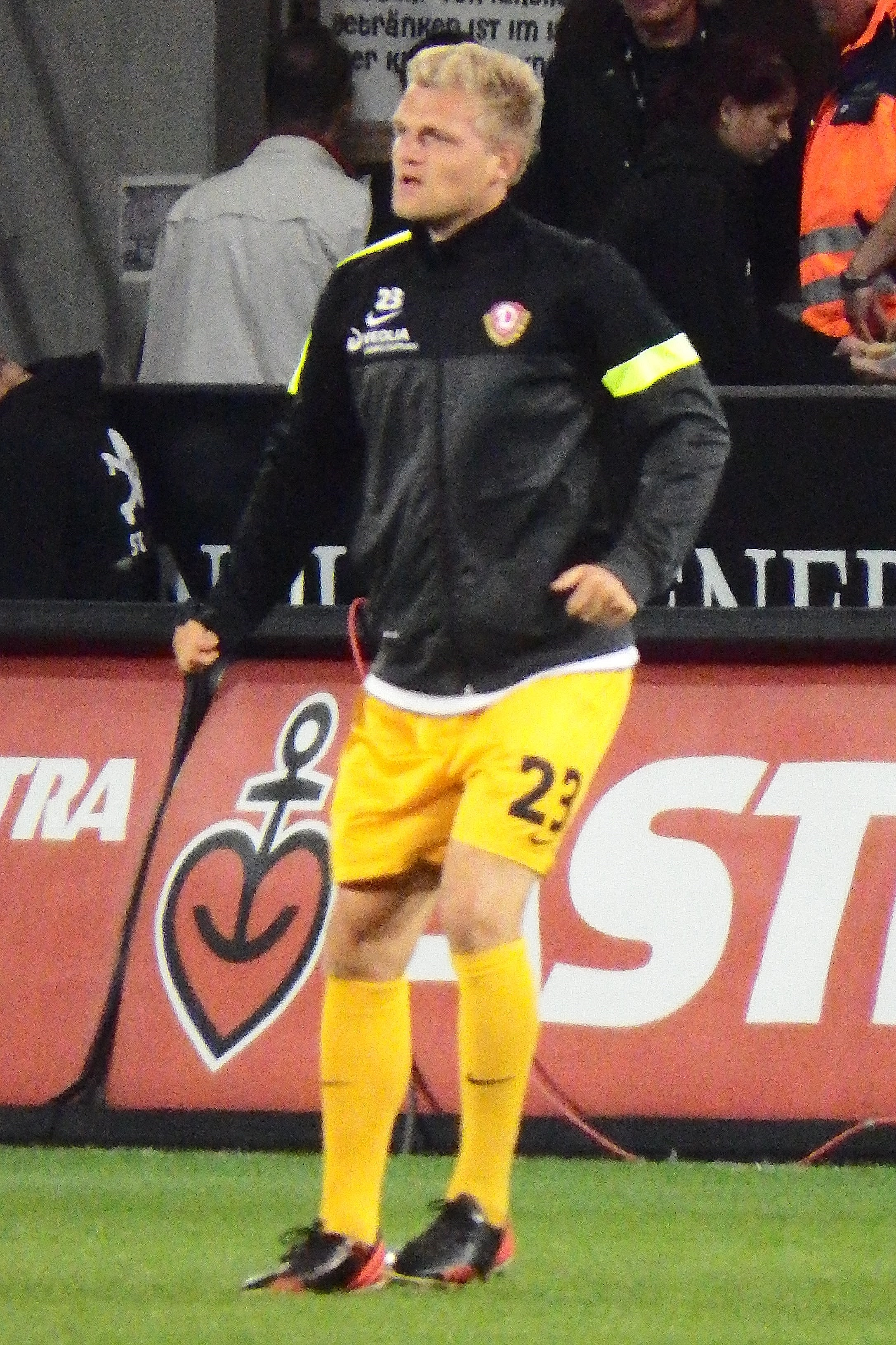 Thorsten Schulz as Player from Dynamo Dresden